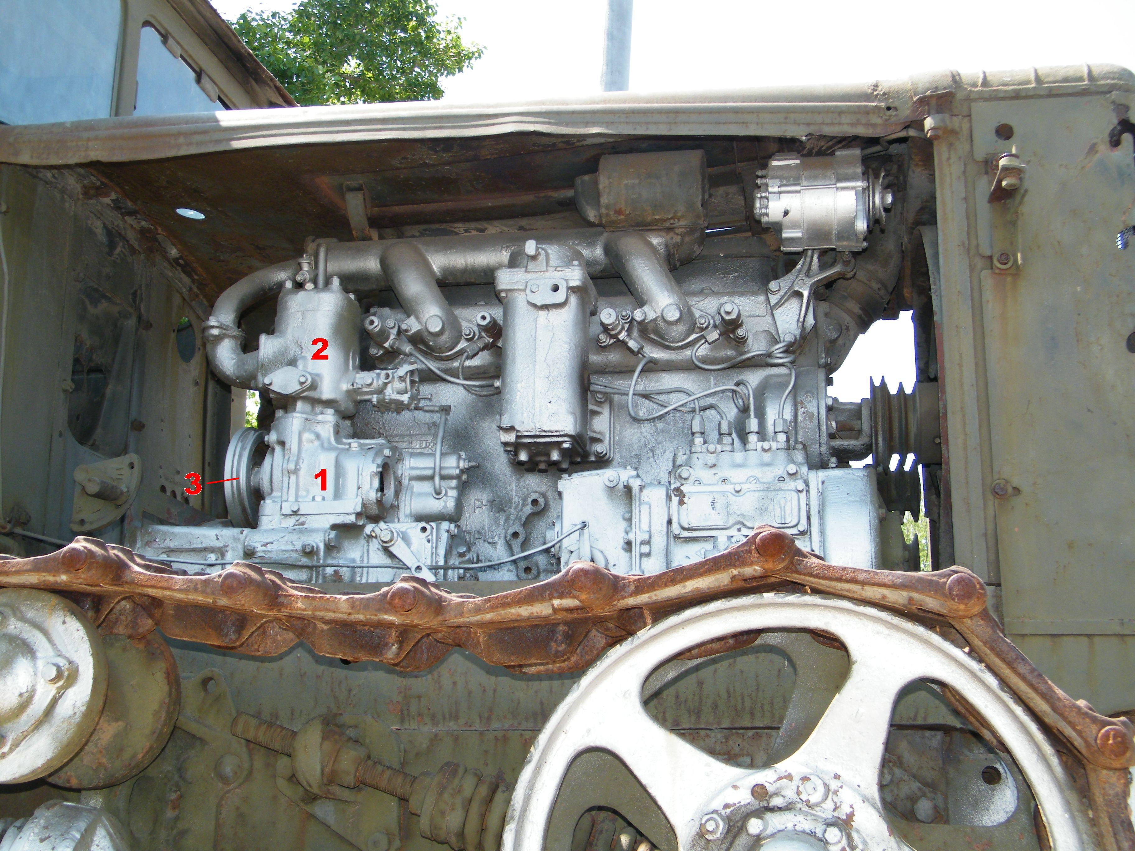 DT-54 tractor